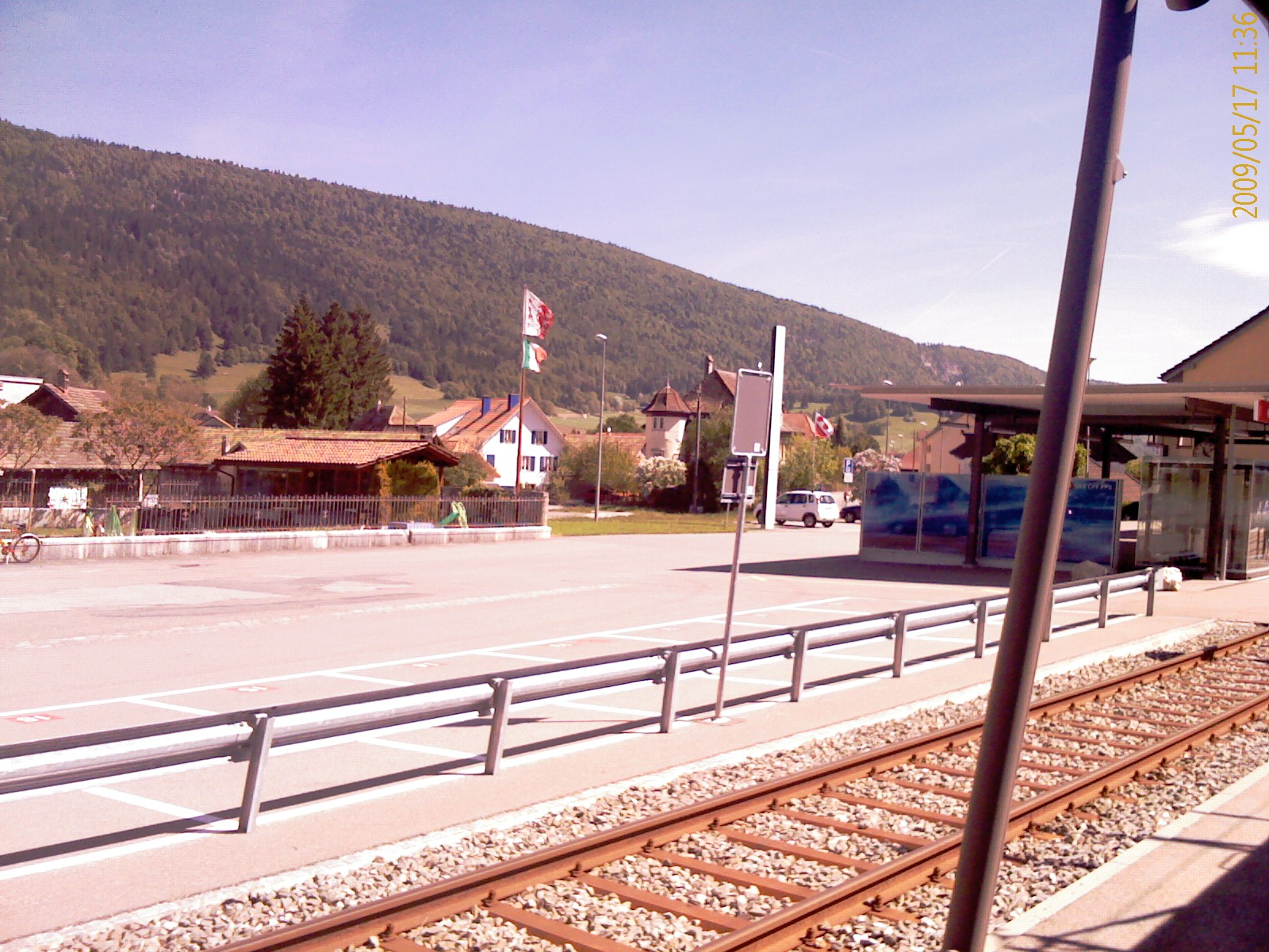 Trainstation of Courtelary, canton of Bern, SwitzerlandEsperanto: Stacidomo de Courtelary, Kantono Berno, Svislando